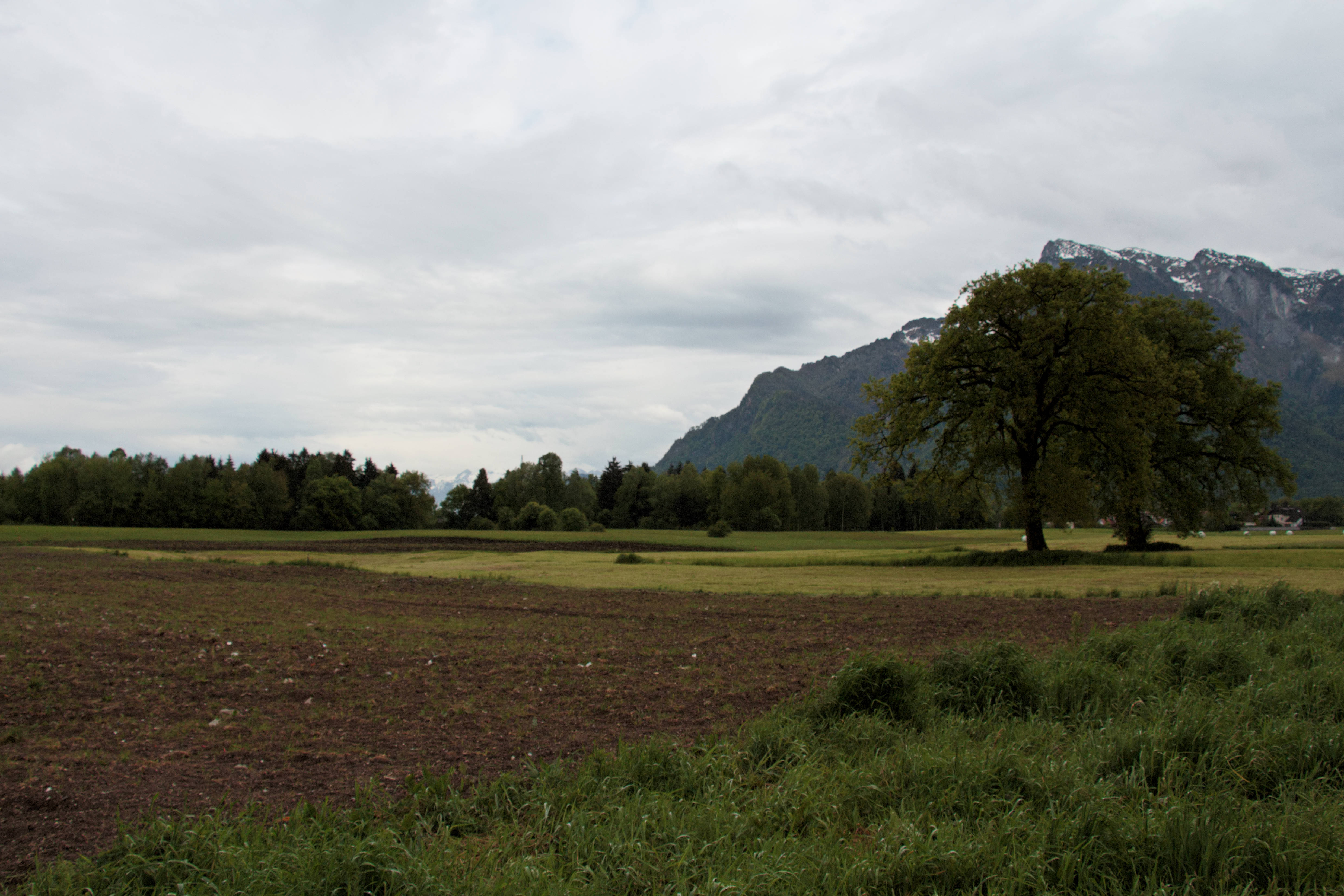 Scene of Leopoldskroner Moos, a protected landscape area in the southwest of the Austrian city of Salzburg. The area is situated in the city quarter by the same name (also spelt Leopoldskron-Moos). Behind the trees there is the Hammerau Moss, a small nature reserve.